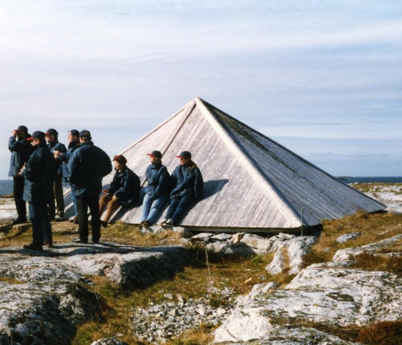 Sandsundvaer